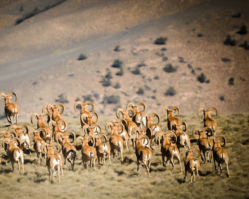 A herd of wild sheep in Khabr national park in kerman province southern Iran.